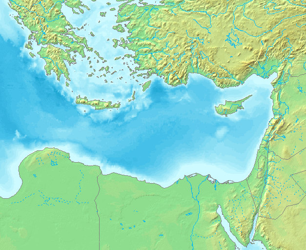 Levantine Sea